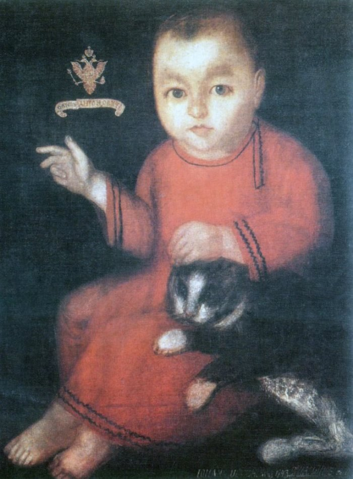 Portrait of Ivan VI of Russia (1740-1764) as a child